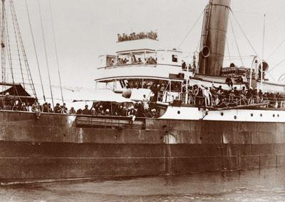 Photograph of the SS Komagata Maru